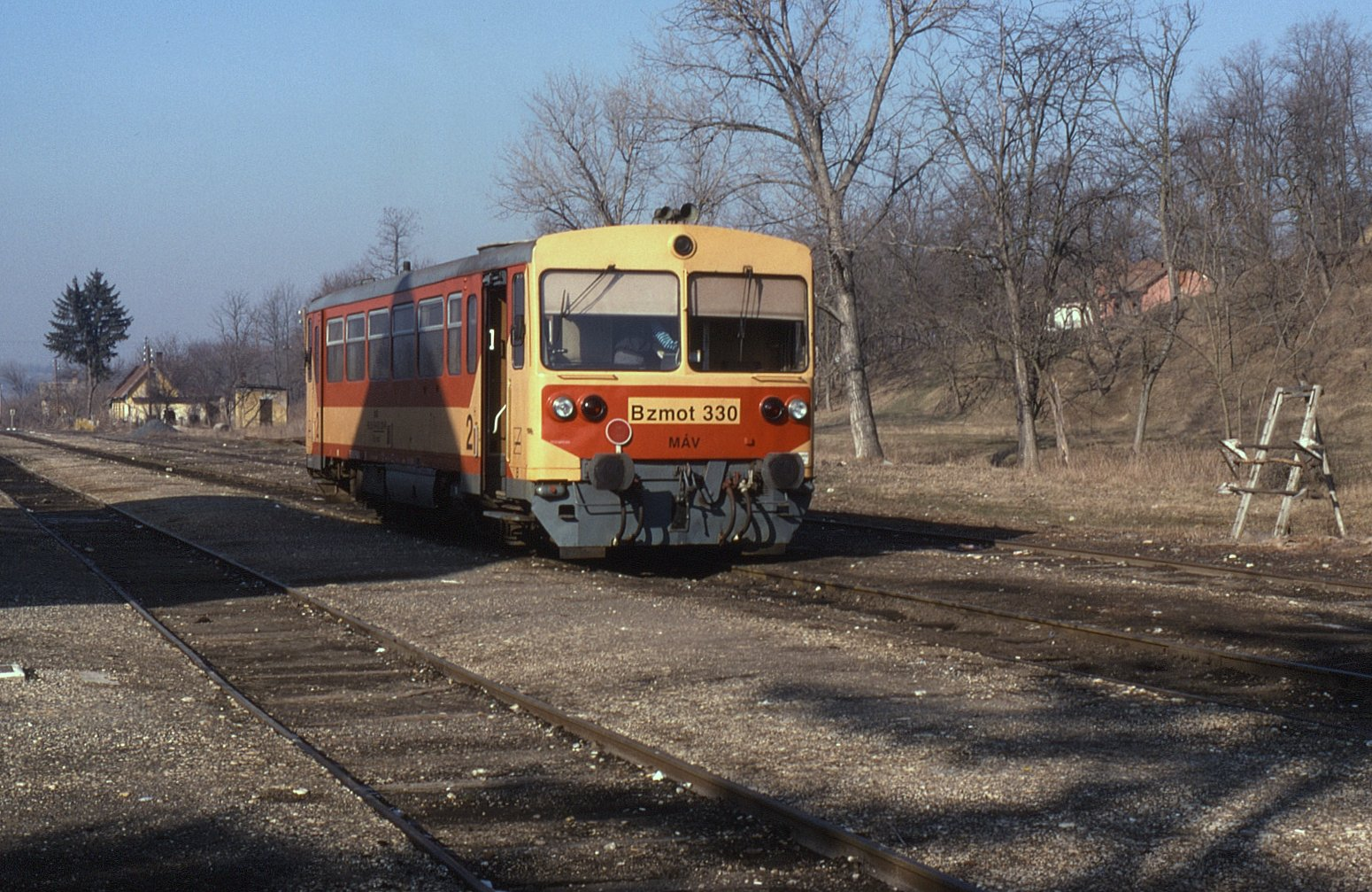 Now completely closed, most of the line from Lepsény to Dombovár was mothballed for many years whilst still being shown in the MÁV printed timetable.The section at the north end as far as Mezőhídvég however was kept open with buses running in place for the rest of the line. At the time of this visit, the track beyond the station had already been lifted meaning there was probably minimal chance of it ever re-opening. On 7 February 1998 single railcar Bzmot 330 had a generous hour turnaround time before the 45 minute run of train 38514,11:40 Mezõhídvég to Lepsény. Mezőhídvég derives its name from the two adjacent villages it serves - Mezőkomárom and Szabadhídvég.